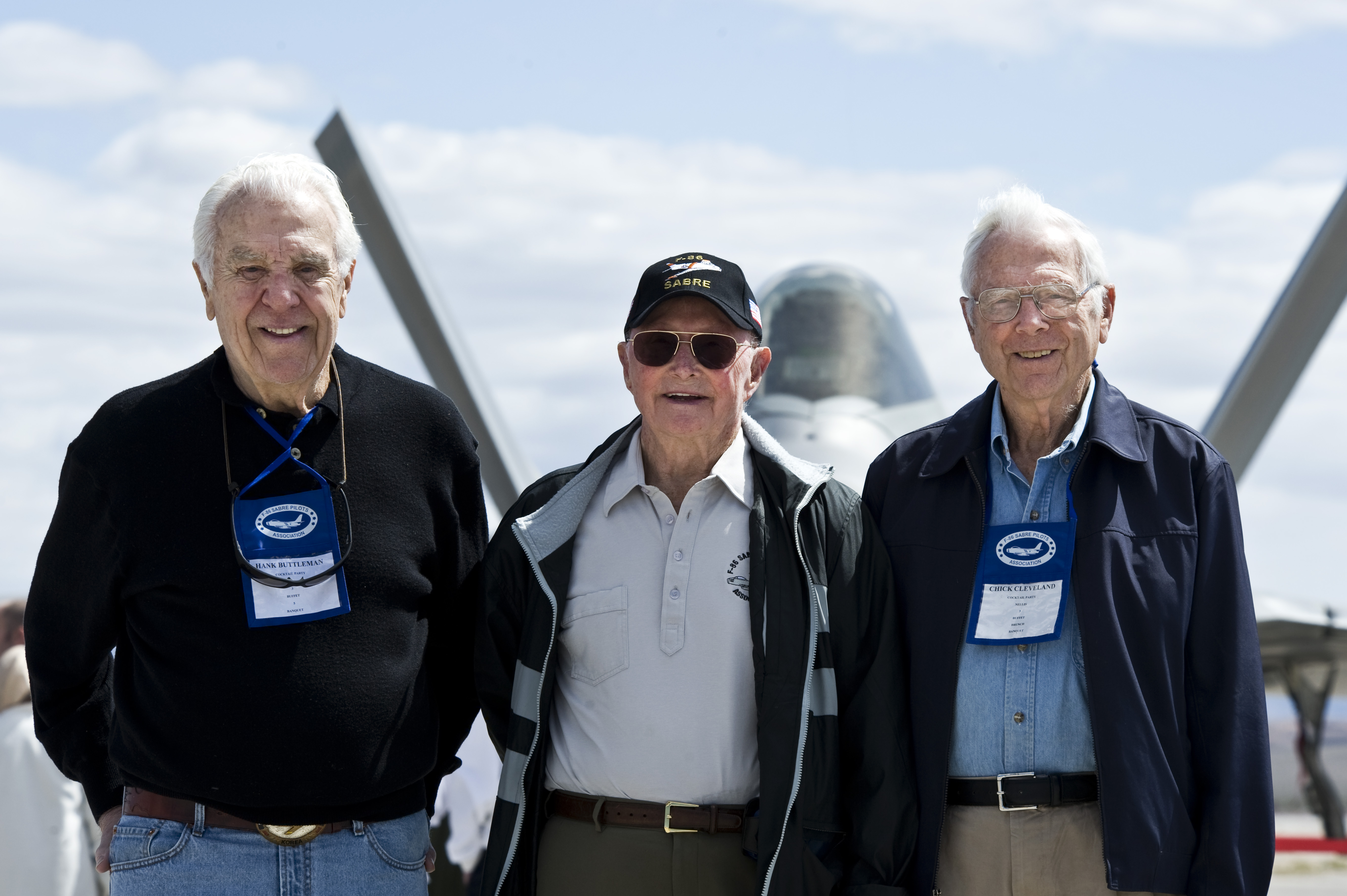 (From left to right) Henry Buttelmann, Cecil G. Foster, and Charles G. Cleveland, retired Air Force Korean War flying aces, pose in front of an F-22 Raptor April 9, 2013, during a Sabre Society tour at Nellis Air Force Base, Nevada